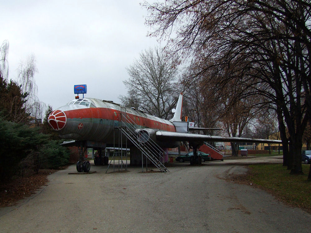 Tupolev Tu-104, Bar Letka, Olomouc, Czech Republic